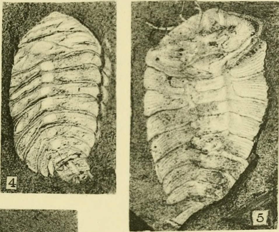 Plate 29: Middle Cambrian Crustaceans (Molaria, Habelia, and Yohoia) 1. Molaria spinifera Walcott = Molaria spinifera Walcott, 1912 2. Molaria spinifera Walcott = Molaria spinifera Walcott, 1912 3. Molaria spinifera Walcott = Molaria spinifera Walcott, 1912 4. Molaria spinifera Walcott = Molaria spinifera Walcott, 1912 5. Molaria spinifera Walcott = Molaria spinifera Walcott, 1912 6. Habelia optata Walcott = Habelia optata Walcott, 1912 7. Yohoia tenuis Walcott = Yohoia tenuis Walcott, 1912 8. Yohoia tenuis Walcott = Yohoia tenuis Walcott, 1912 9. Yohoia tenuis Walcott = Yohoia tenuis Walcott, 1912 10. Yohoia tenuis Walcott = Yohoia tenuis Walcott, 1912 11. Yohoia tenuis Walcott = Yohoia tenuis Walcott, 1912 12. Yohoia tenuis Walcott = Yohoia tenuis Walcott, 1912 13. Yohoia tenuis Walcott = Yohoia tenuis Walcott, 1912 14. Yohoia plena Walcott = Plenocaris plena (Walcott, 1912)